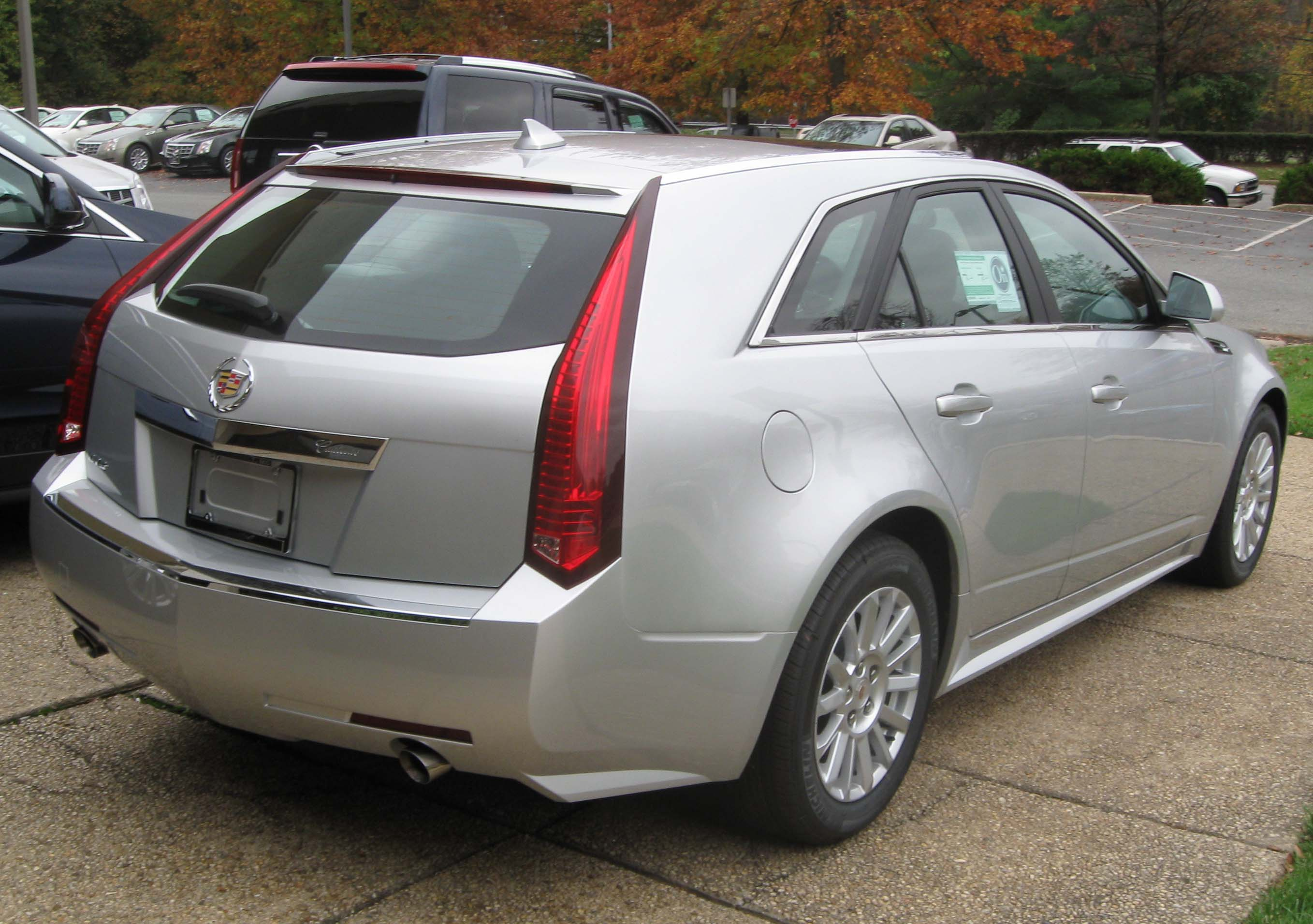 2010 Cadillac CTS wagon photographed in Greenbelt, Maryland, USA.